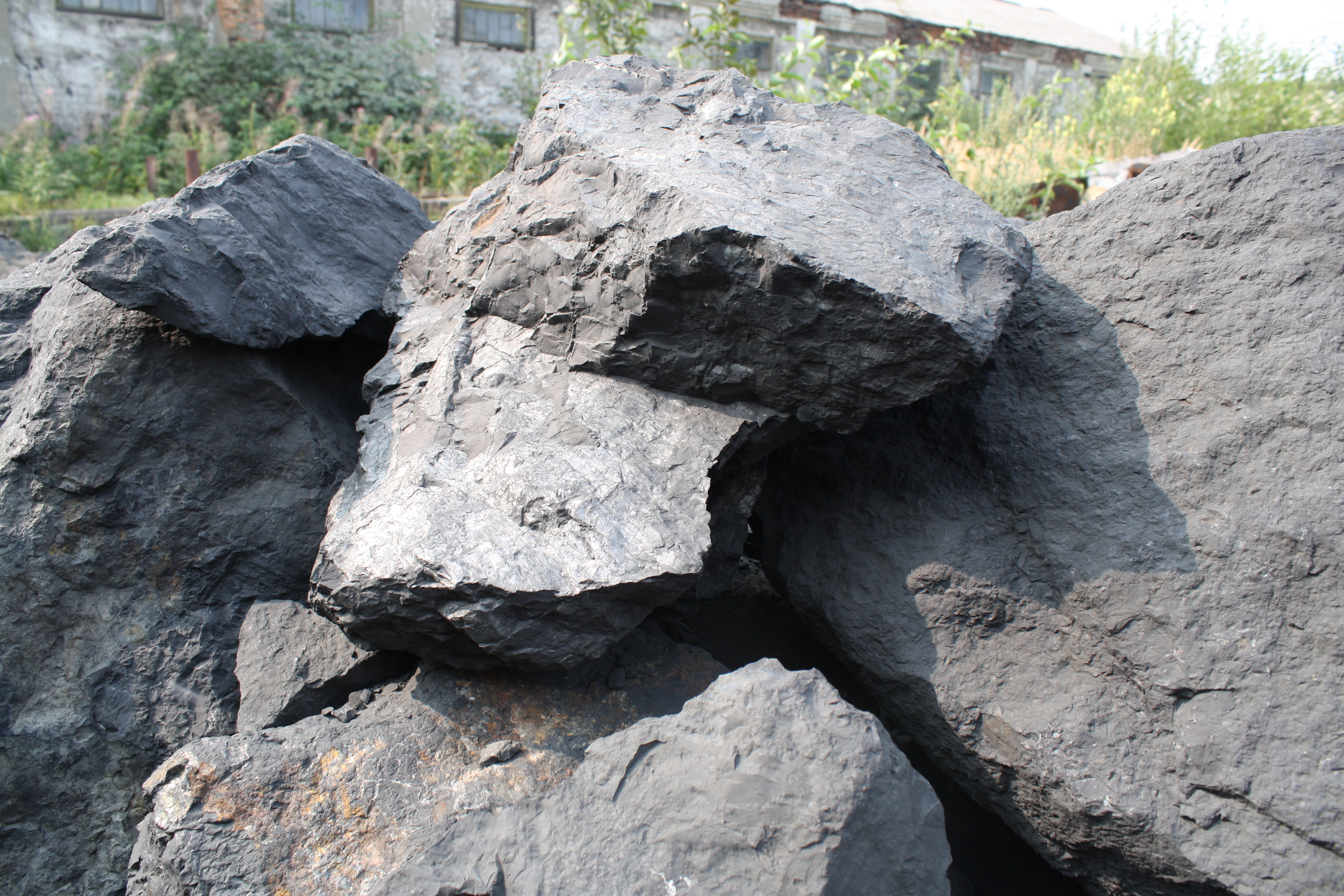 Shungite raw stone (Carelia, Russia)